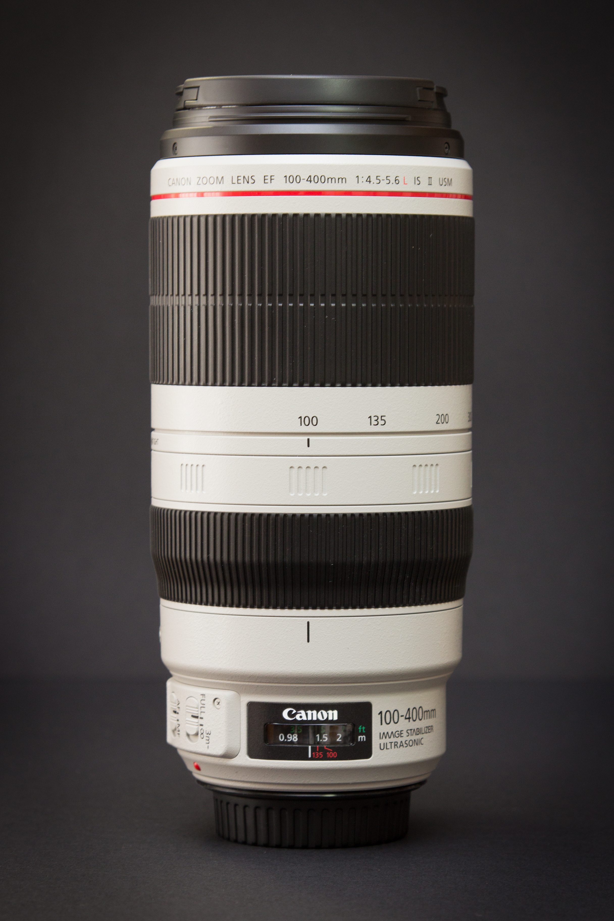 Canon zoom lens EF 100-400mm F4.5-5.6L IS II USM.